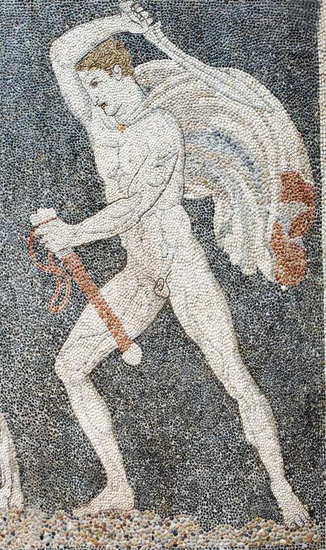 Detail from a mosaic 'hunting a lion', image from the Archaeological Museum, Pella, Central Macedonia, Greece